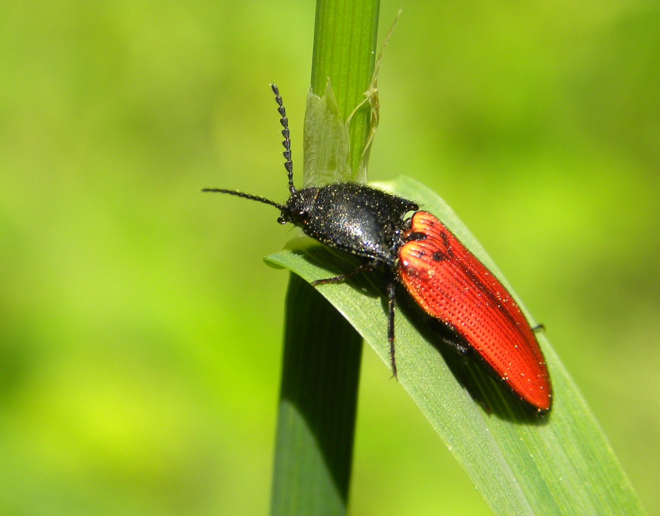 Ampedus sanguineus, a Click beetle.